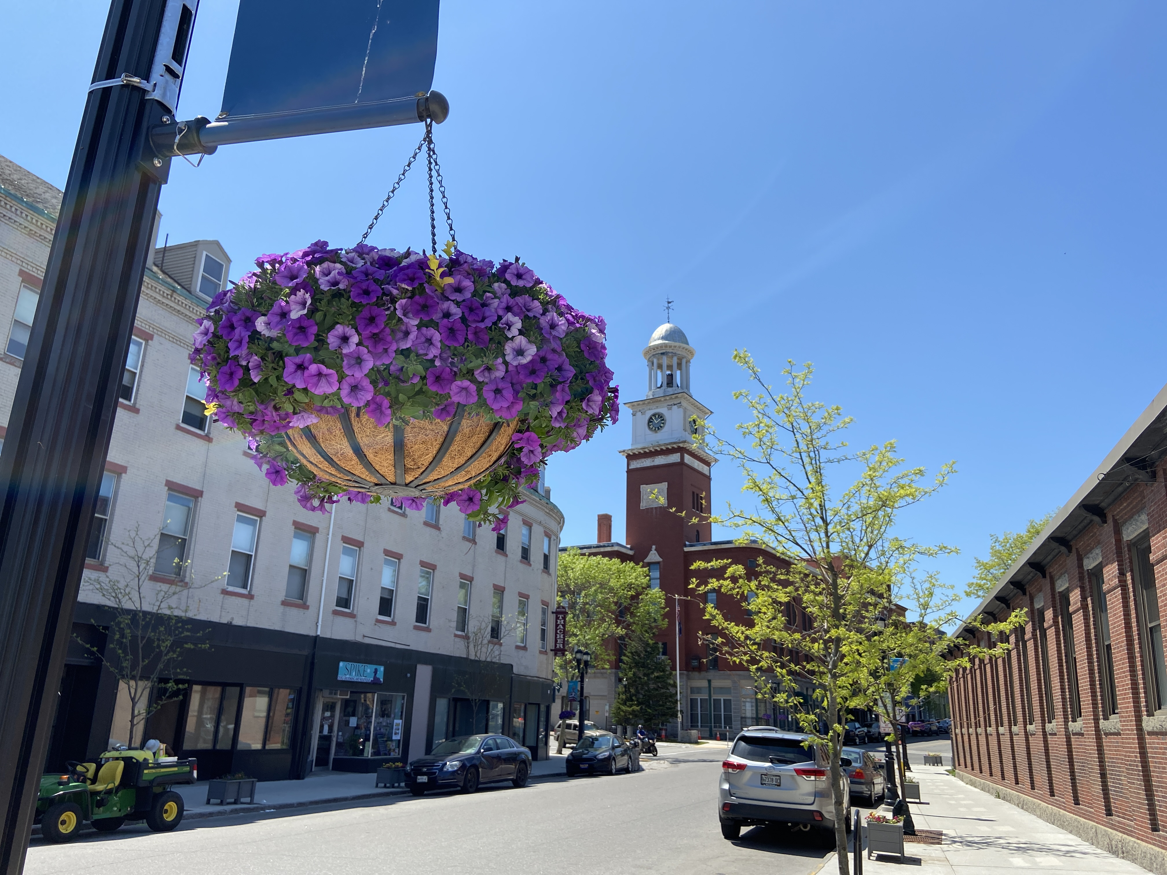 A photo of City Hall in Biddeford, Maine, featuring a hanging flowerpot.